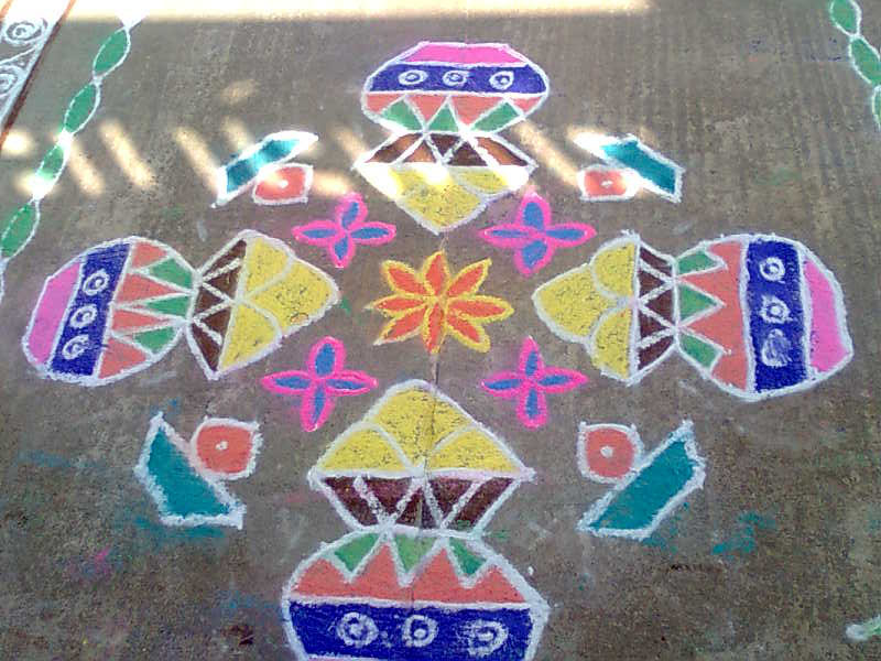 kolam